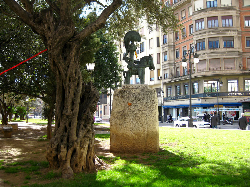 Parc de l'Hospital, municipal park in the centre of Valencia, Spain